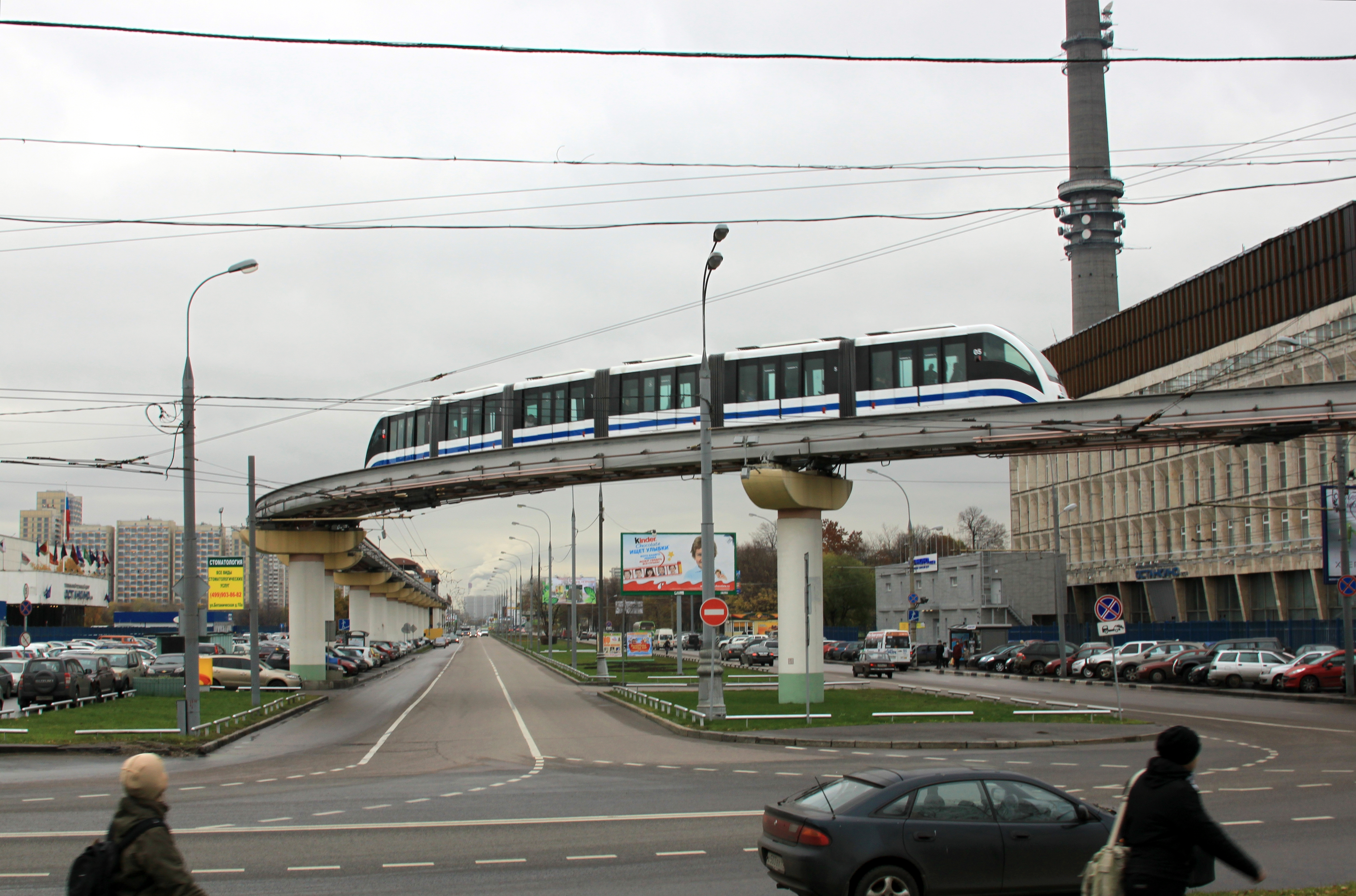 Russia, Moscow, Akademika koroleva street, Ostankino, Moscow Monorail, TV center, Россия, Москва, улица Академика Королева, Московская монорельсовая транспортная система, Останкино, телецентр